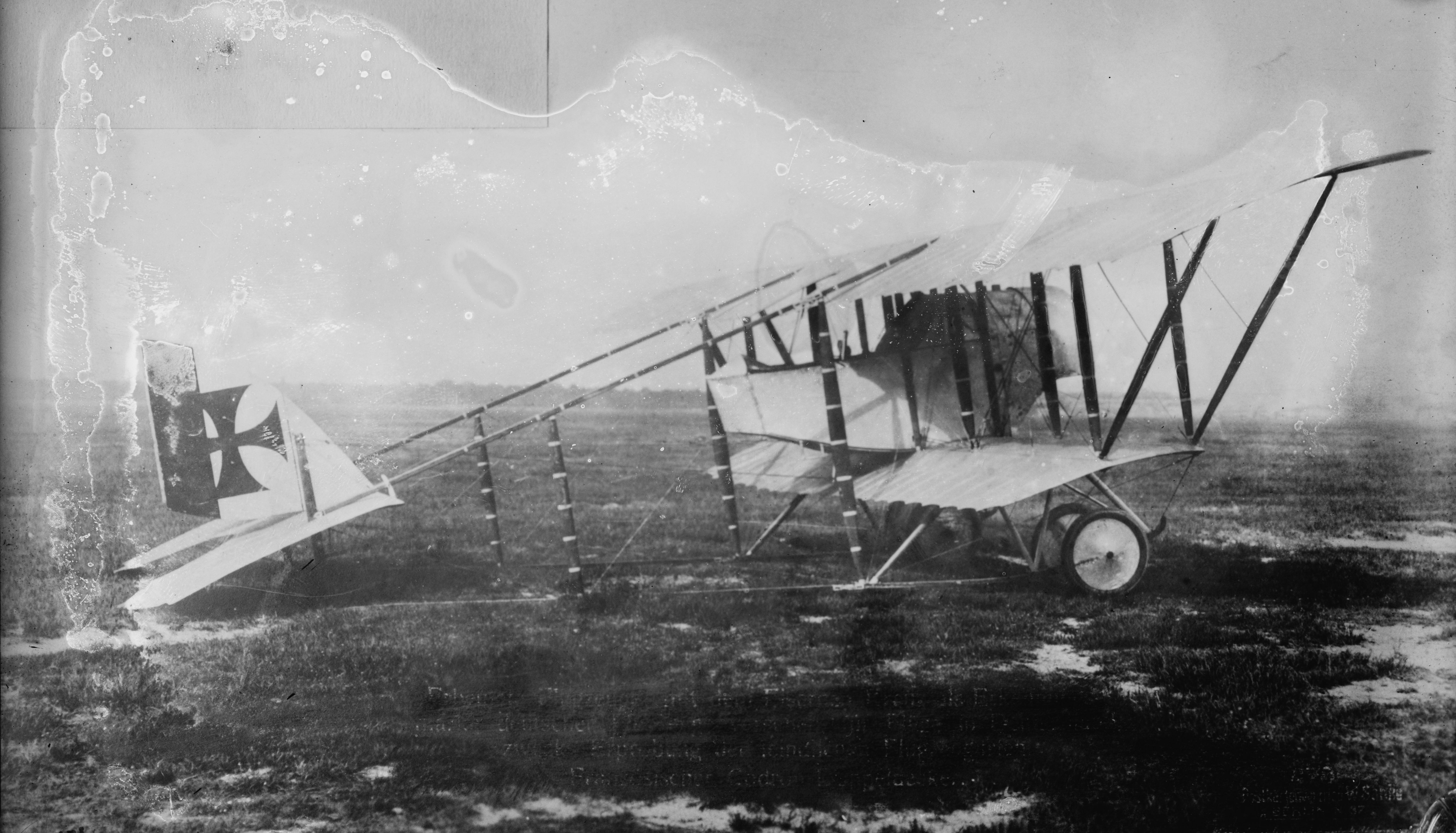 A French Caudron G.3 reconnaissance plane captured by German troops. The G.3 was used from 1914 to 1916.